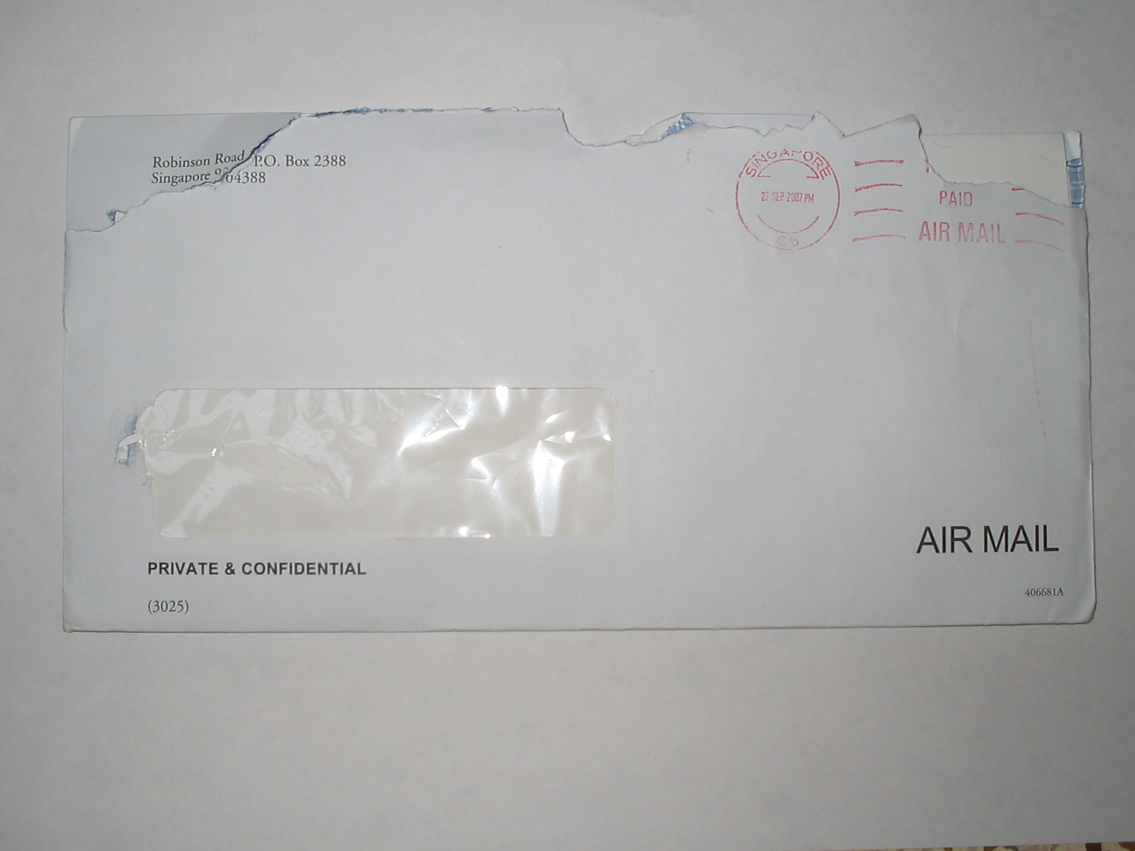 A typical mail envelope for the Google AdSense standard deliveryGoogle AdSense envelope for the check (cheque) they send